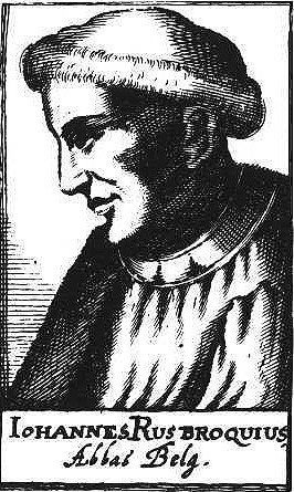 Medieval portrait of the Blessed John of Ruysbroeck. Flemish mystic (1293 or 1294-1381)